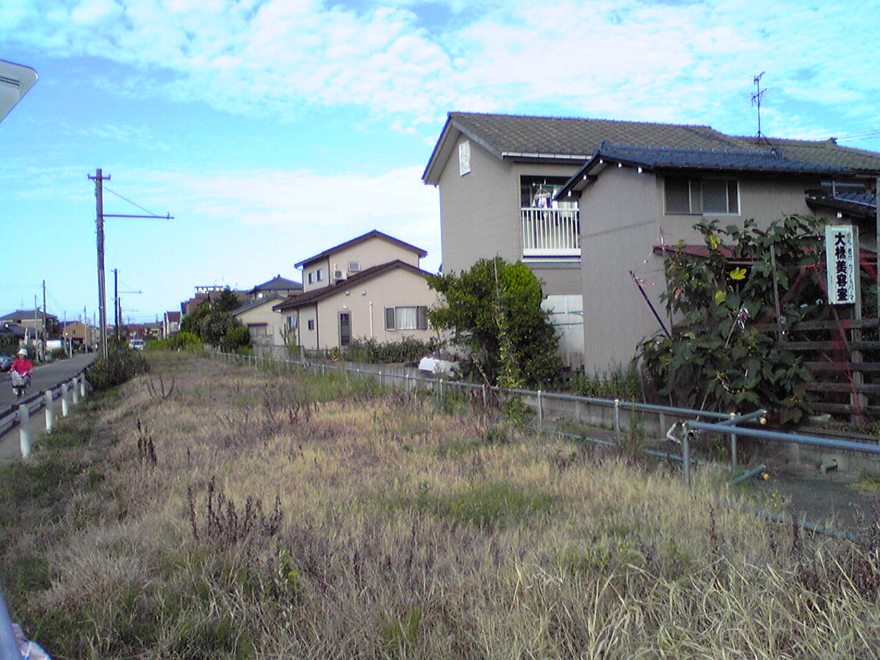 The remains of Kurosaki-chugakumae Station, Niigata Kotsu Railway which became the abolished line on April 5, 1999. This station became the abandoned station on April 5, 1999.